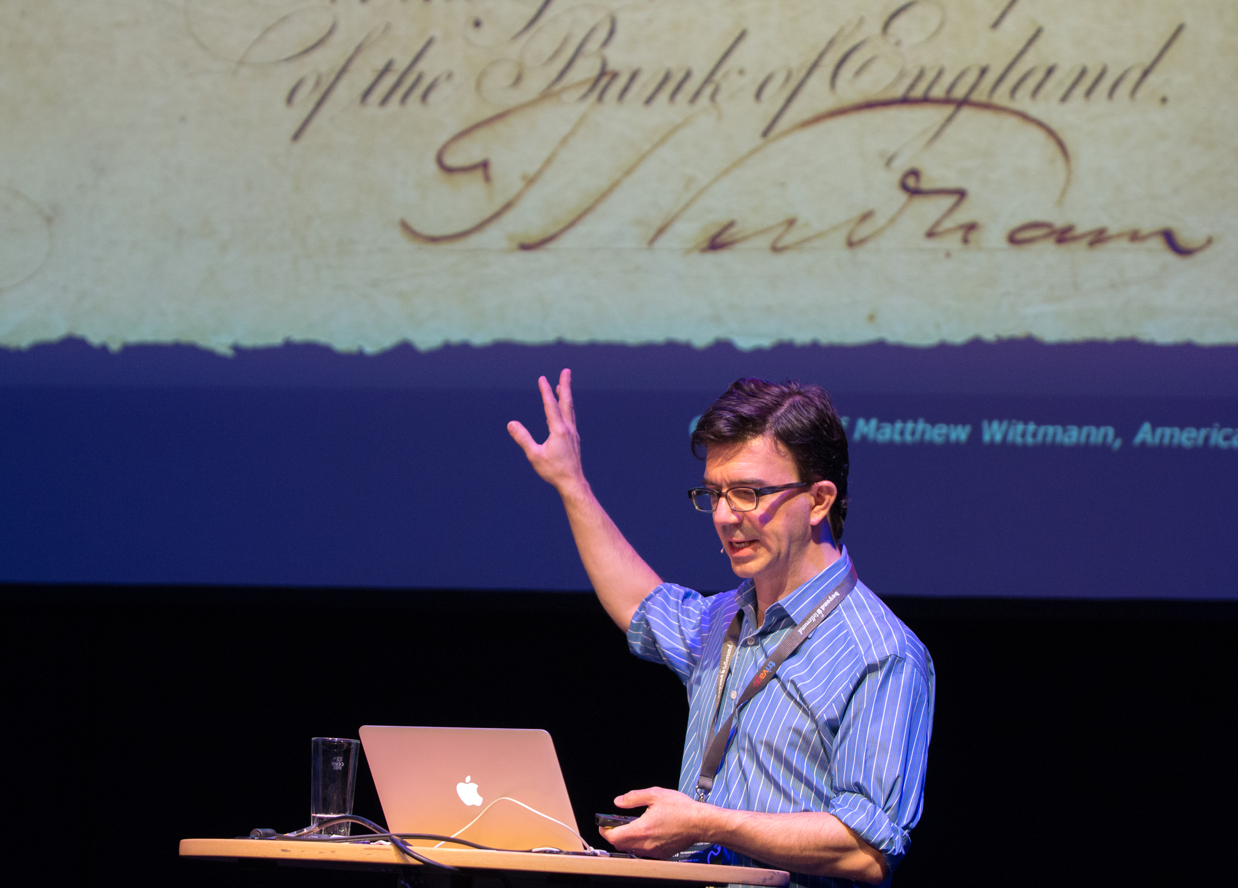 Tobias Frere-JonesTobias Frere-Jones at the Beyond Tellerand Berlin, 2015